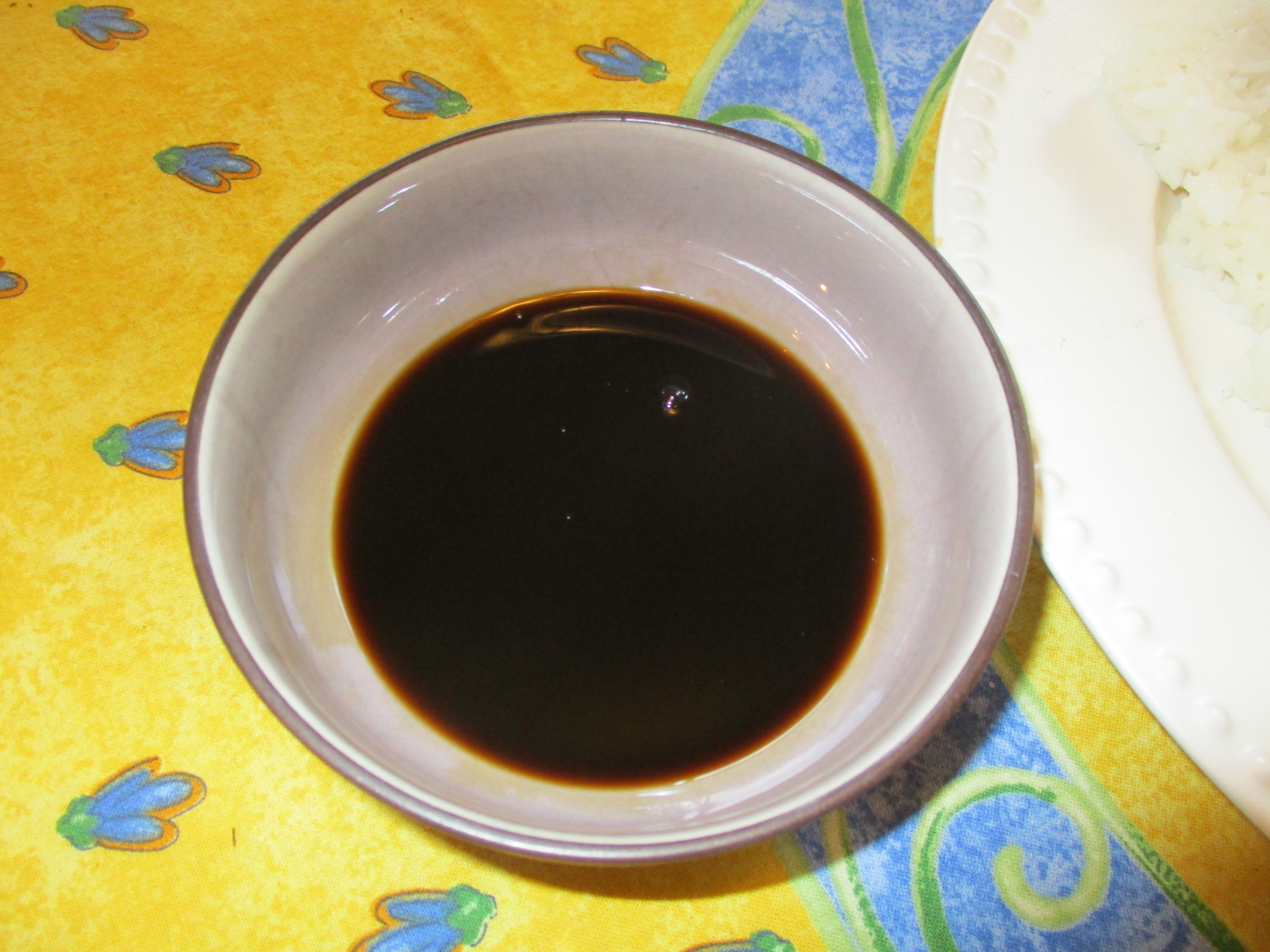 In a small Asian ceramic bowl.